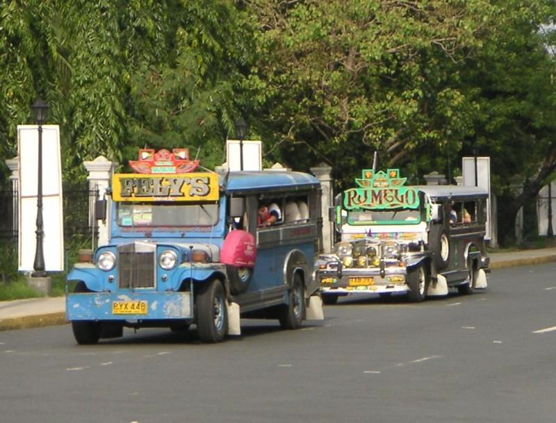 Jeepneys in Manila picture made by (WT-shared) Thorsten.